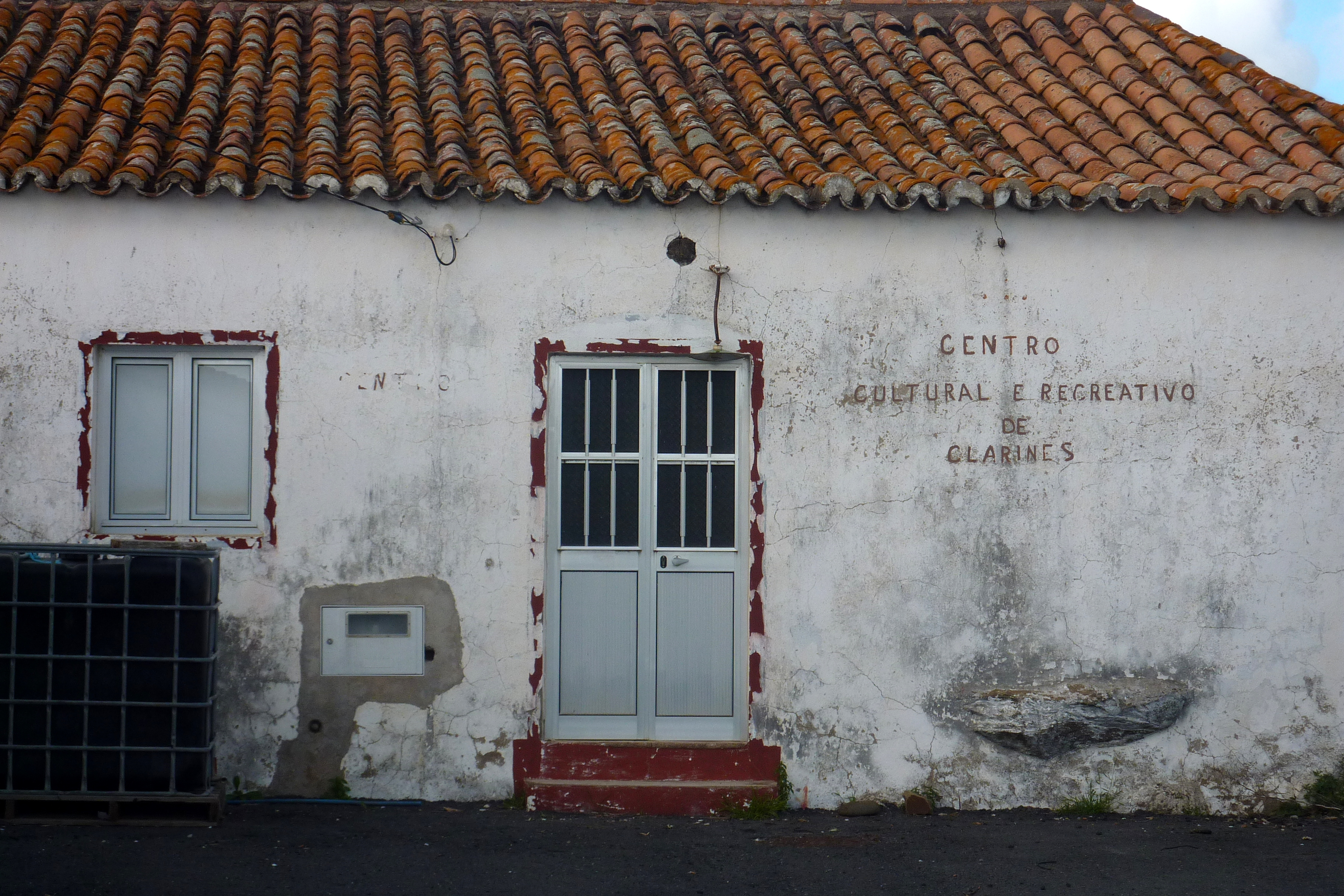 Portugal - Village office